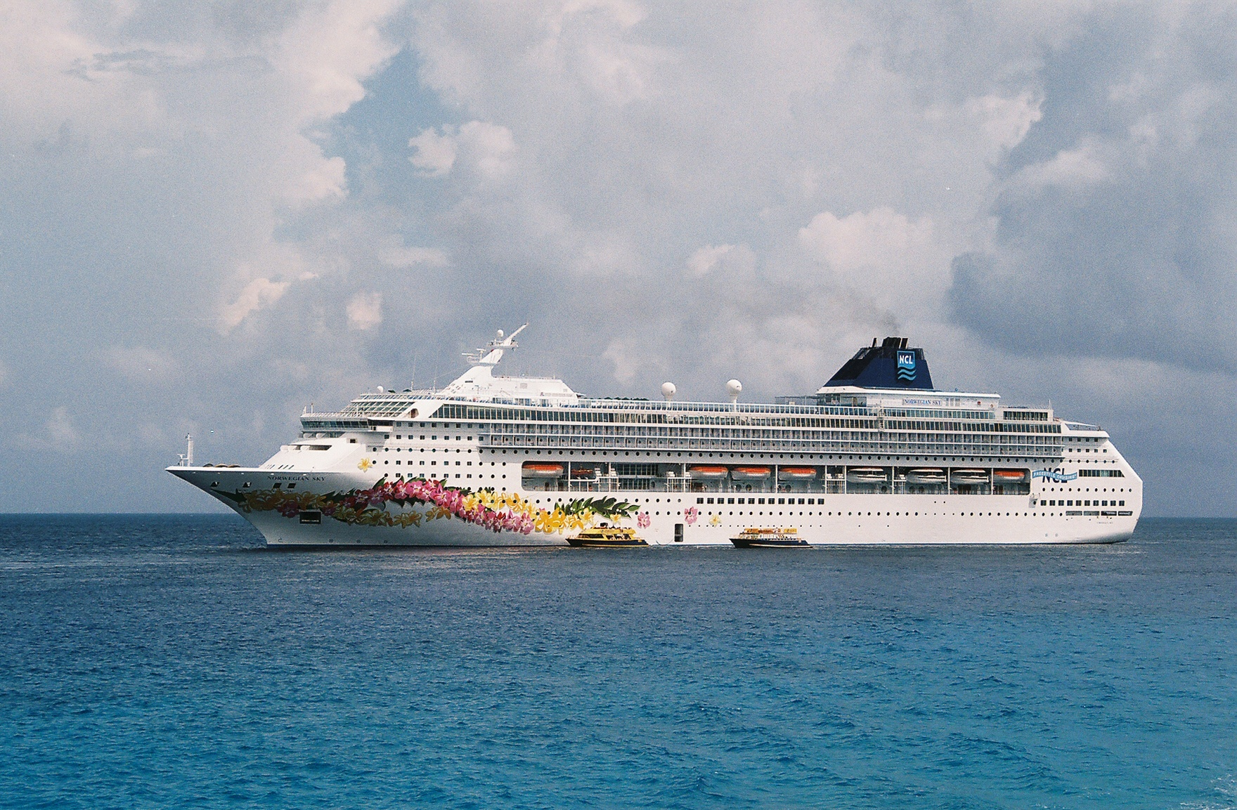 Author: OneCyclone Source: Olympus camera